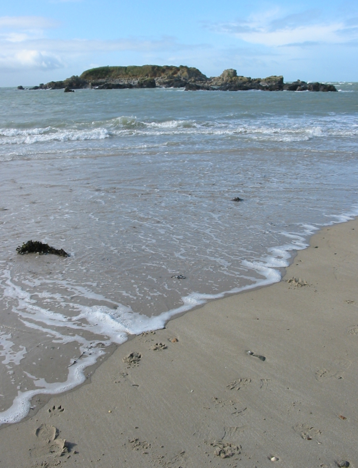 Jersey Nrf: La Motte, Saint Cliément, Jèrri